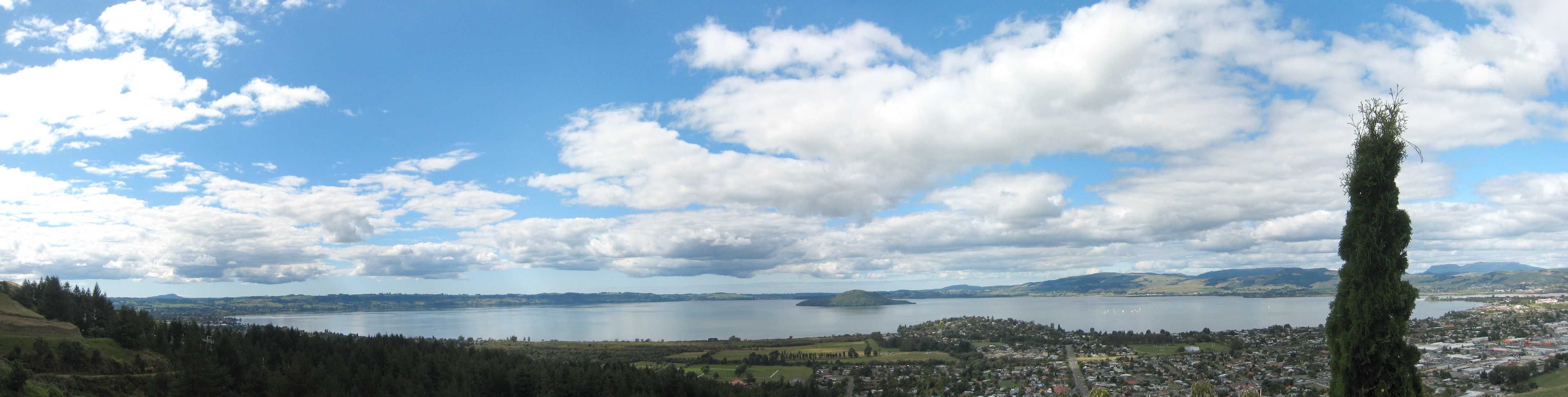 Lake Rotorua from Mount Ngongotaha.